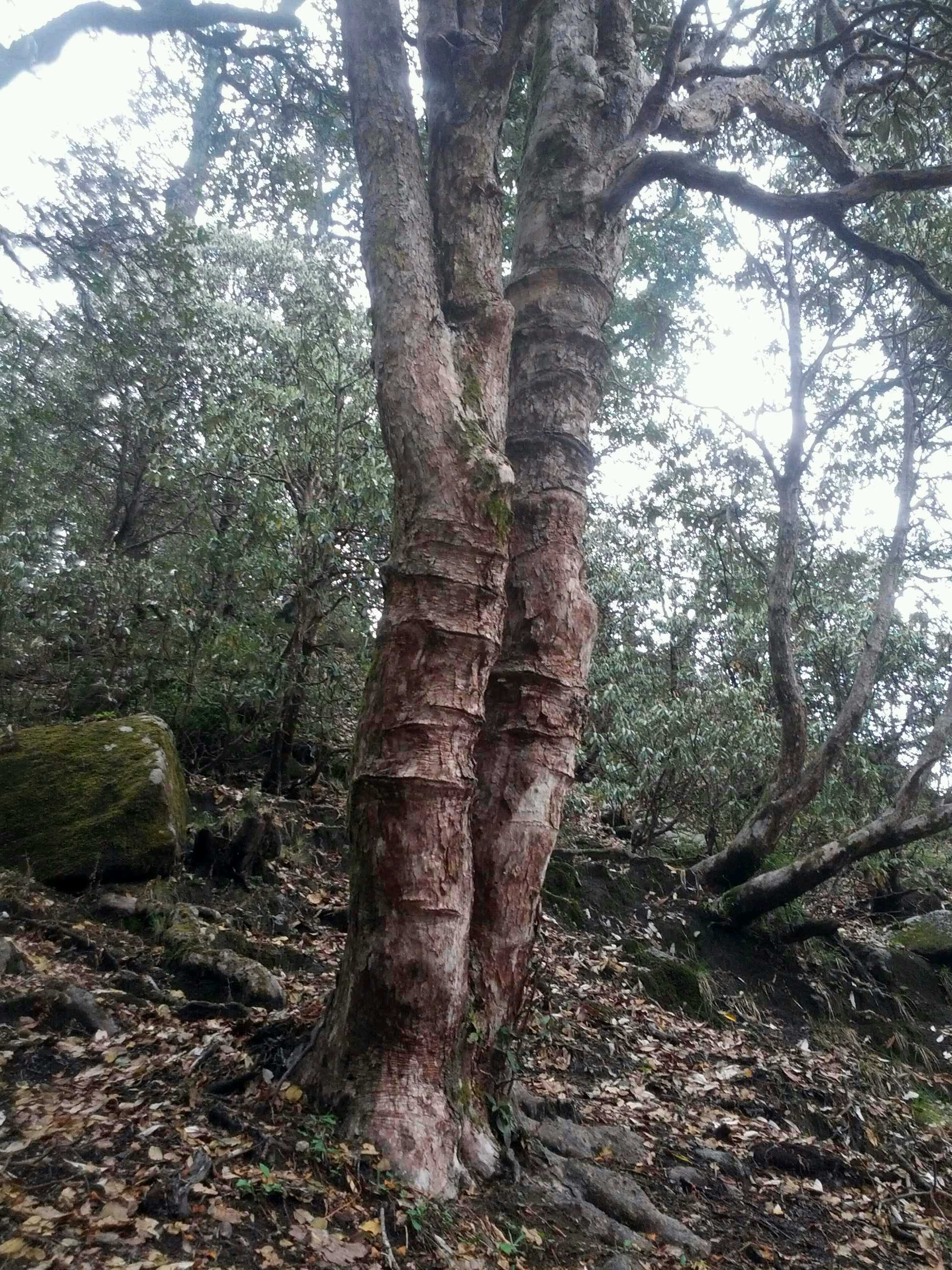 Rings around Rhododendron arboreum caused by Rufous bellied woodpecker sap-sucking activity.